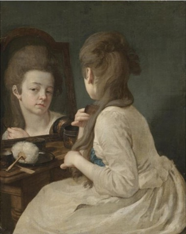 An interior with a young lady at her toilet, combing her hair before a mirror